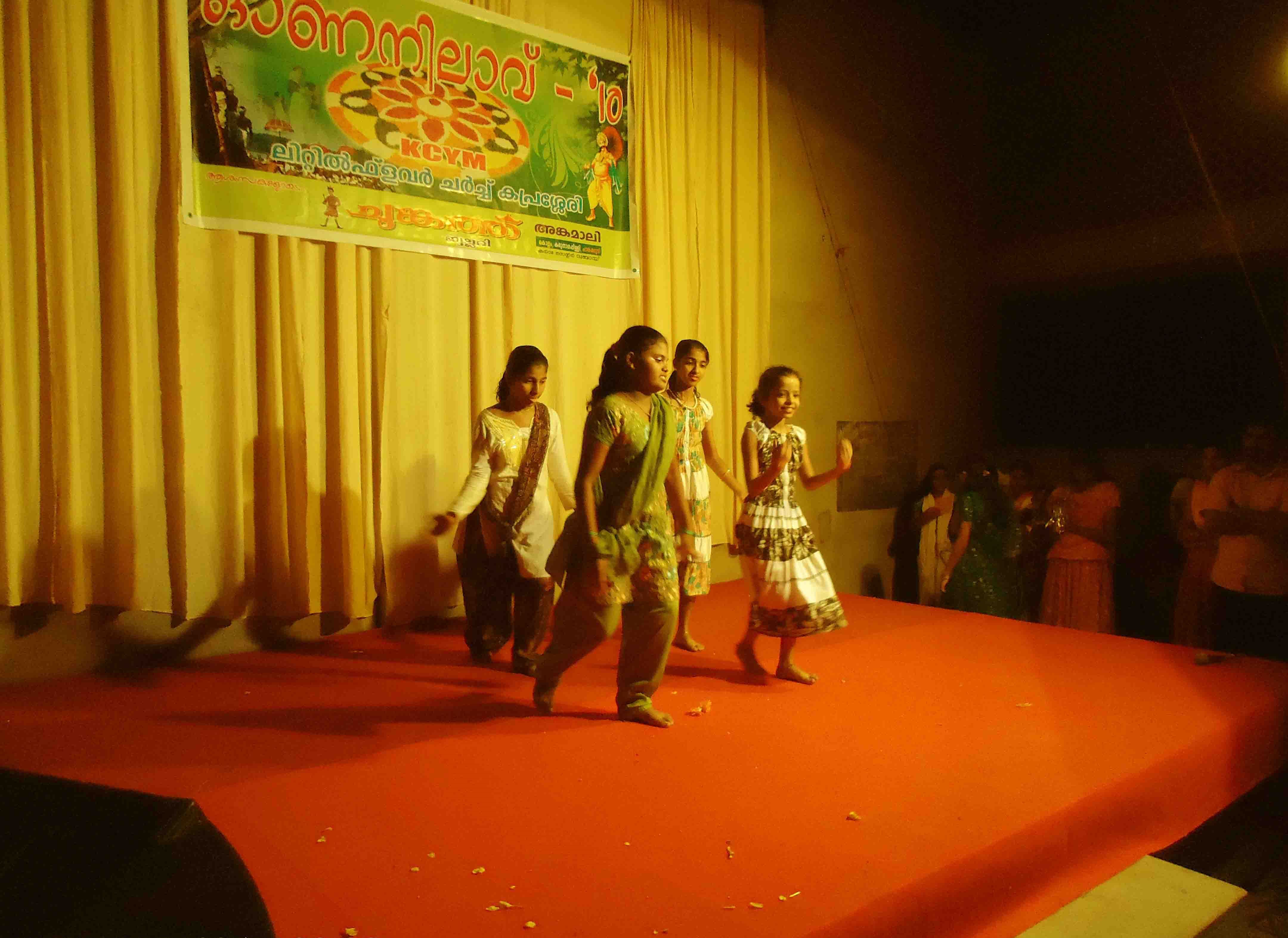 A dance performance during Onanilavu 10. Onanilavu is a cultural fiesta conducted every year during onam season by KCYM